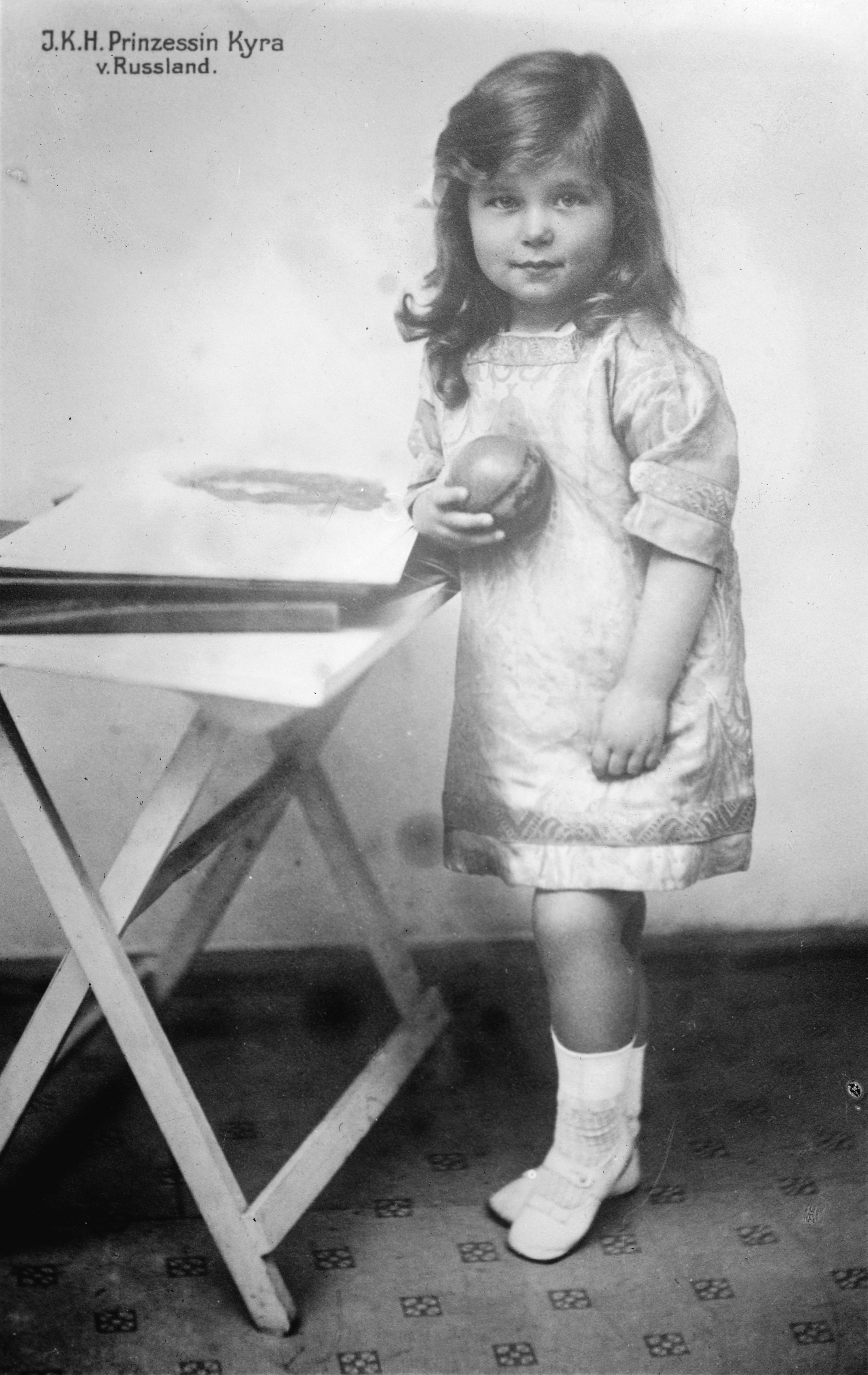 Princess Kyra of Russia, born May 9, 1909, daughter of Grand Duke Cyril of Russia and Grand Duchess Victoria Feodorovna